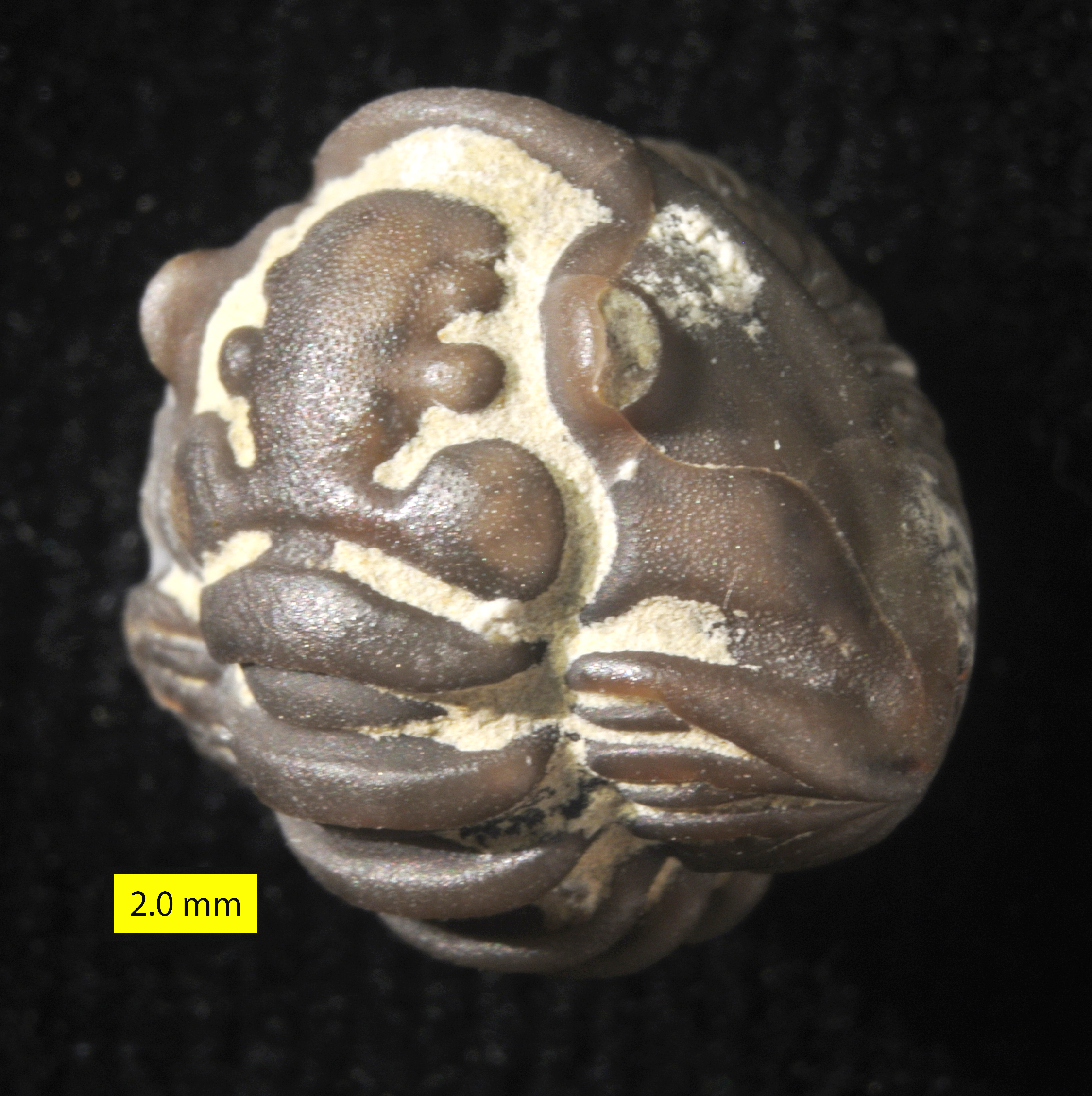 The trilobite Flexicalymene meeki; Waynesville Formation; Upper Ordovician; Caesar Creek, Ohio. Specimen collected by Eve Caudill.